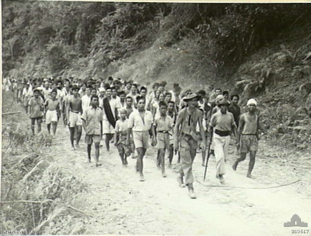 Australian War Memorial image 089617. PRIVATE K. FREE, 2/24 INFANTRY BATTALION, (1), LEADS INHABITANTS OF JUATA VILLAGE SOUTHWARD ALONG THE ANZAC HIGHWAY, WHERE THEY WILL BE HANDED OVER TO NICA (NETHERLANDS INDIES CIVIL ADMINISTRATION) UNTIL THEY WILL BE FREE TO RETURN TO THEIR VILLAGES.